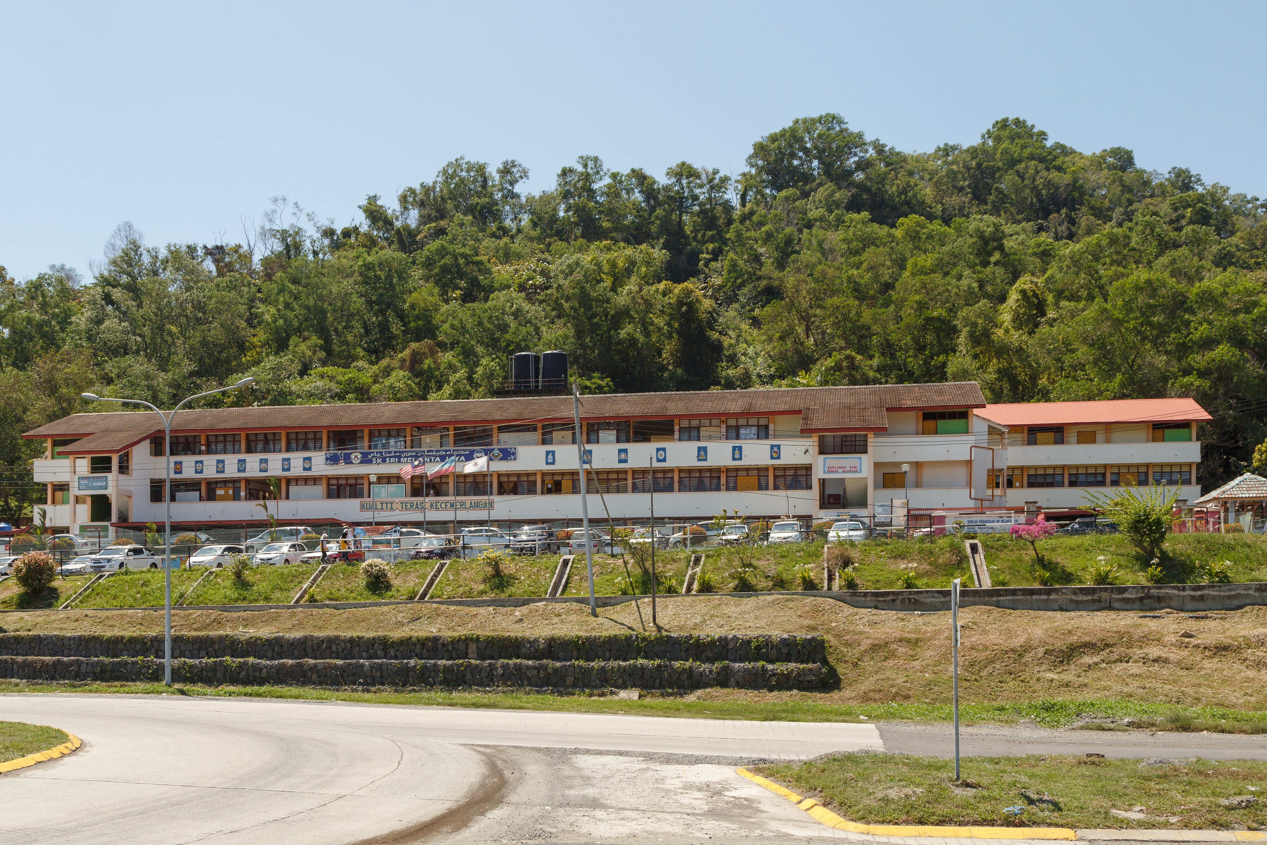 Sandakan, Sabah: Sekolah Kebangsaan Bandar Dua Sandakan, a primary school in Kampung Karamunting. Also known as SK Sri Melanta Jaya